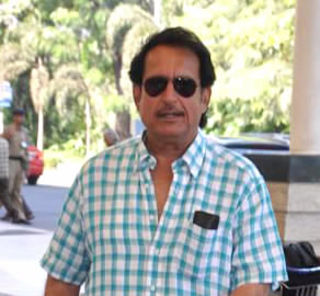 Kiran Kumar at Mumbai Airport leaving for the charity football match in Delhi